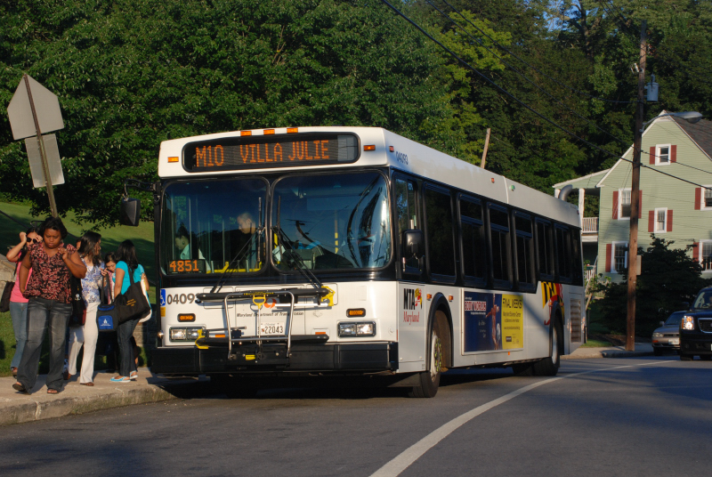 MTA Maryland New Flyer #04093 on the Route M10 going towards Villa Julie College. All credit goes to Thomas Reaves (Nabinut) on the forum. I am a member of the forum. I am NGOrion and Thomas Reaves (Nabinut), the owner of this